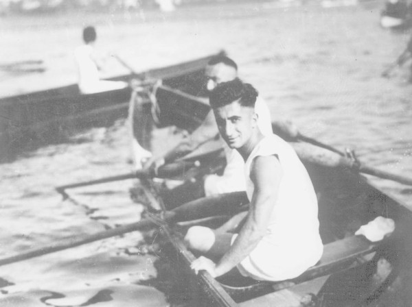 Nihat Bekdik in Istanbul Rowing Championship events, 3 August 1933.